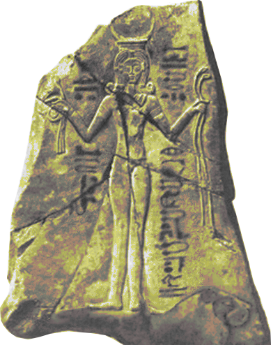 A digital reconstruction of the Qetesh relief plaque (Triple Goddess Stone). The title reads: Qeteshet, Astarte, Anat. Painted limestone. Dated to the time of Rameses III (1198-1166 BCE). Once owned by Winchester College in England. Canaanite Myth and Hebrew Epic: Essays in the History of the Religion of Israel by Frank Moore Cross - Page 43 ...Of special interest is the Winchester relief on which three names - "Qetesh, Astarte, Anat", appear revealing the confusion of the three goddesses, but also using Qetesh as the equivalent of Asherah. A Relief of Qudshu-Astarte-Anath in the Winchester College Collection - I. E. S. Edwards, Journal of Near Eastern Studies, Vol. 14, No. 1, Henri Frankfort Memorial Issue (Jan., 1955)[1]